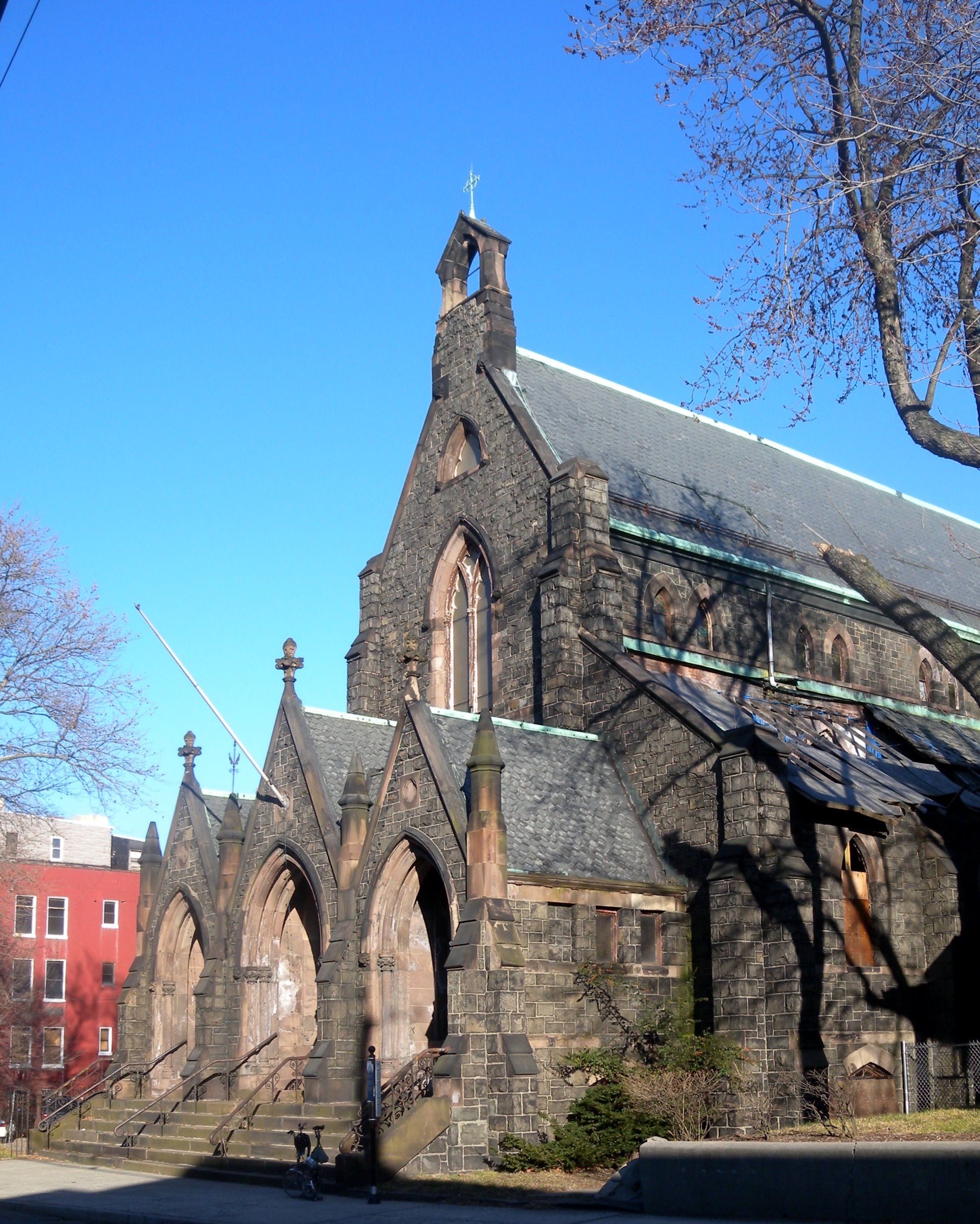 Looking northeast across Summit Avenue at St John's on a sunny afternoon. See The New Jersey Churchscape.